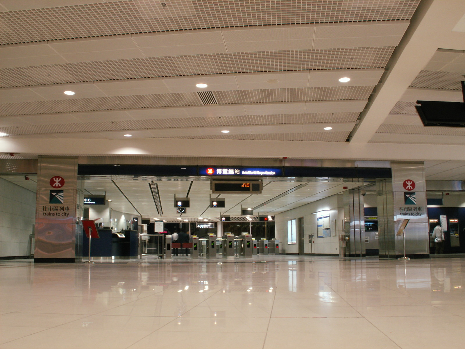 AsiaWorld-Expo Station